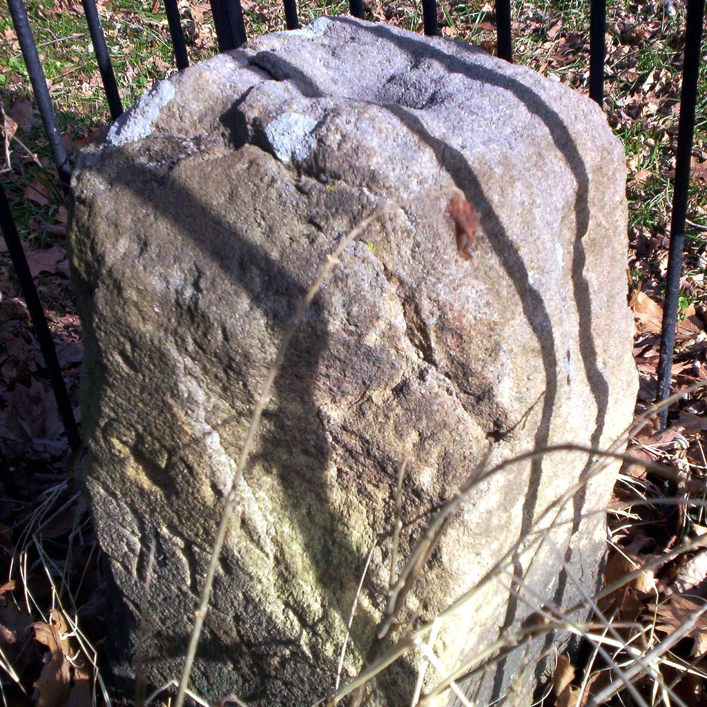 DC Boundary Stone Northwest Mile 6, that is the stone 6 miles northwest of the westernmost point of the original District of Columbia. The stone was placed in 1791-1792 by Andrew Ellicott and Benjamin Banneker. for a map of these stones.